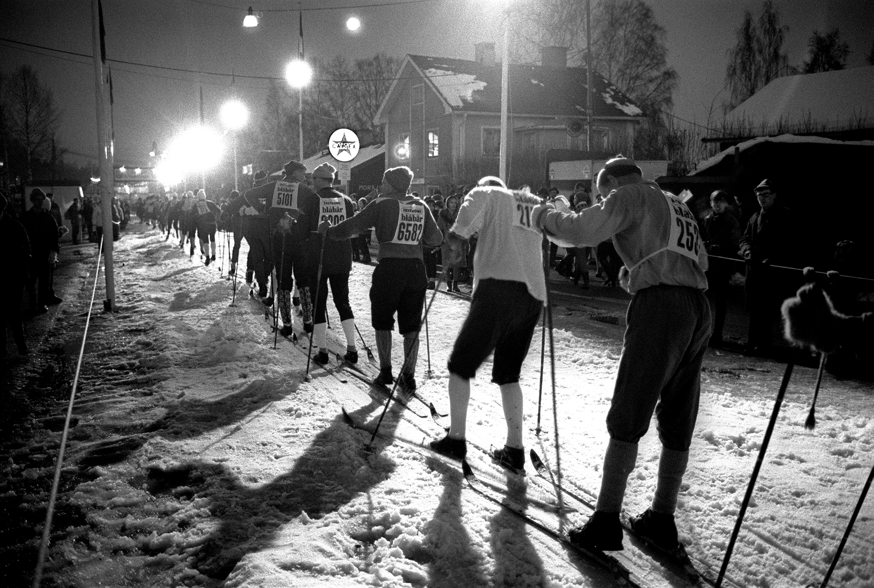 Queuing for the finish line